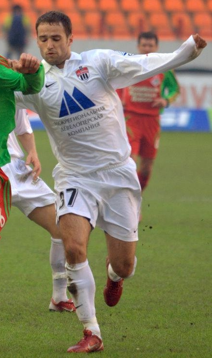 Roman Shirokov in action for FC Khimki